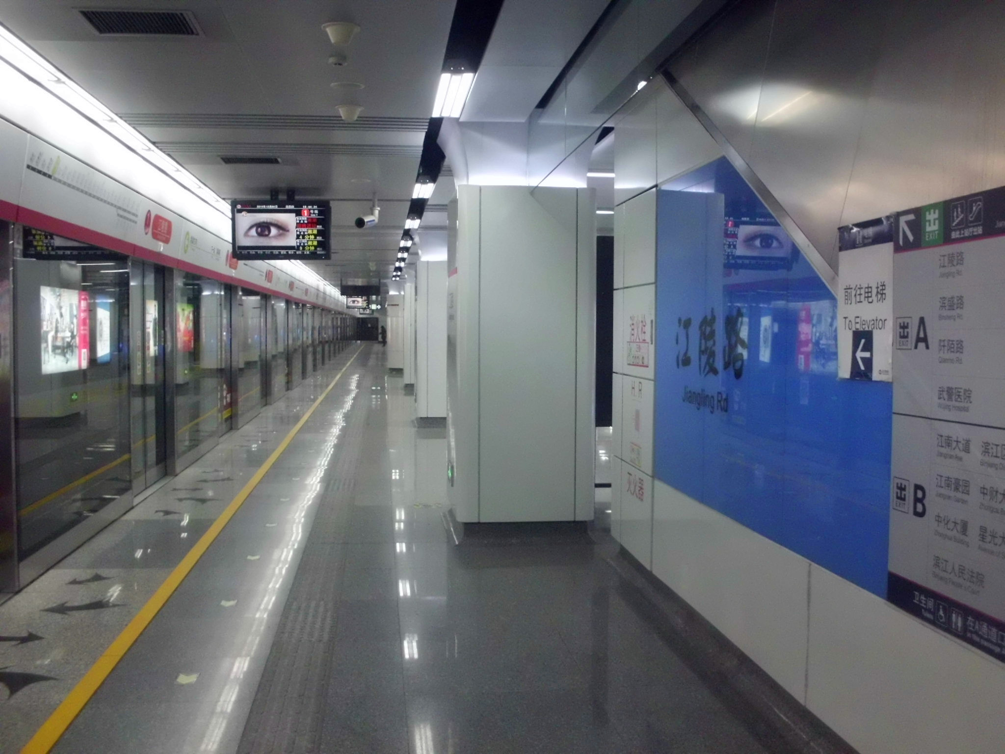 Jiangling Road Station